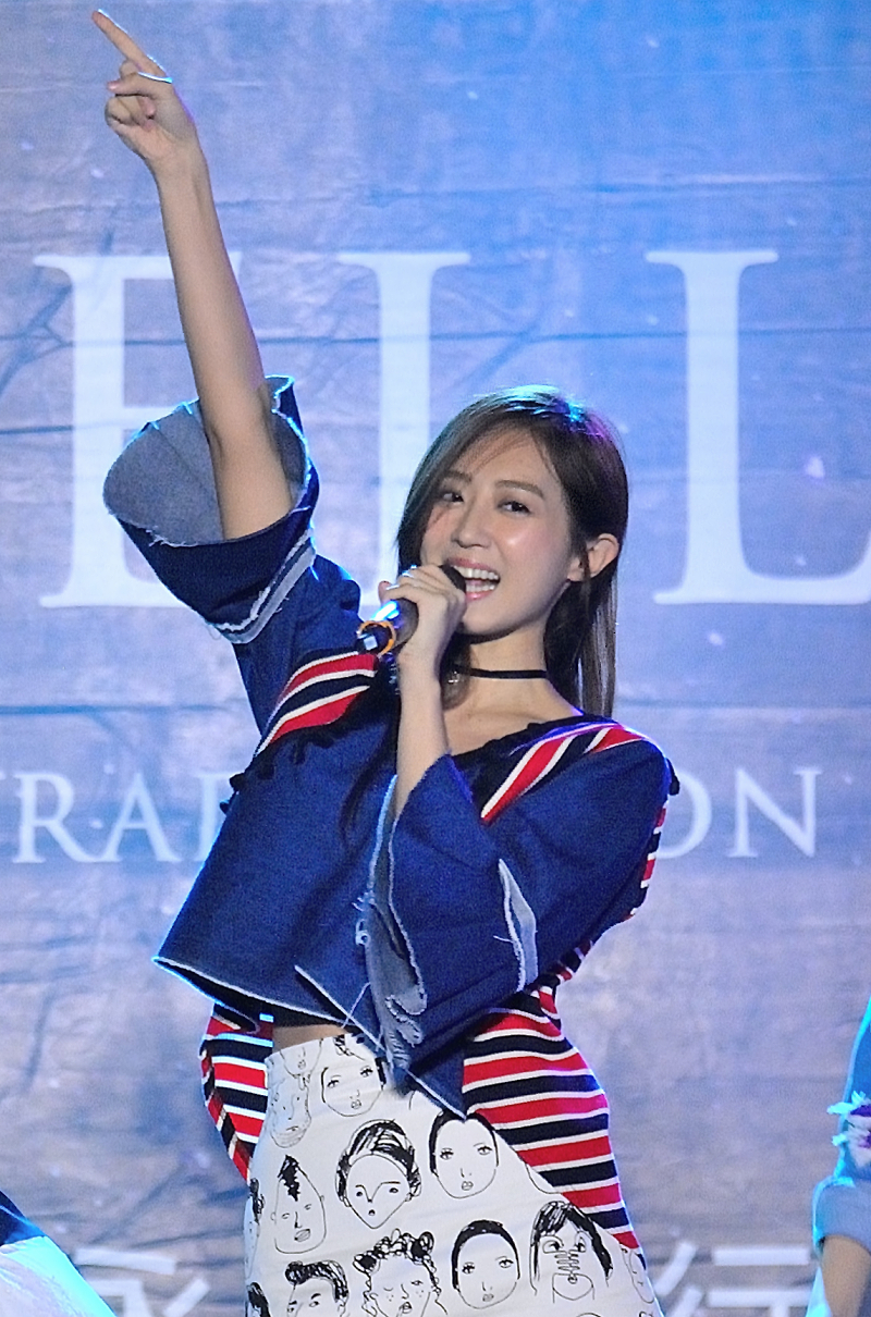 Hong-Shih was singing on the campus stage 2016